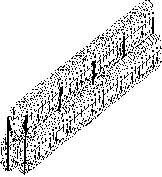 A concertina wire obstacle (hand drawn by Securiger 14:13, 15 Dec 2003 (UTC))